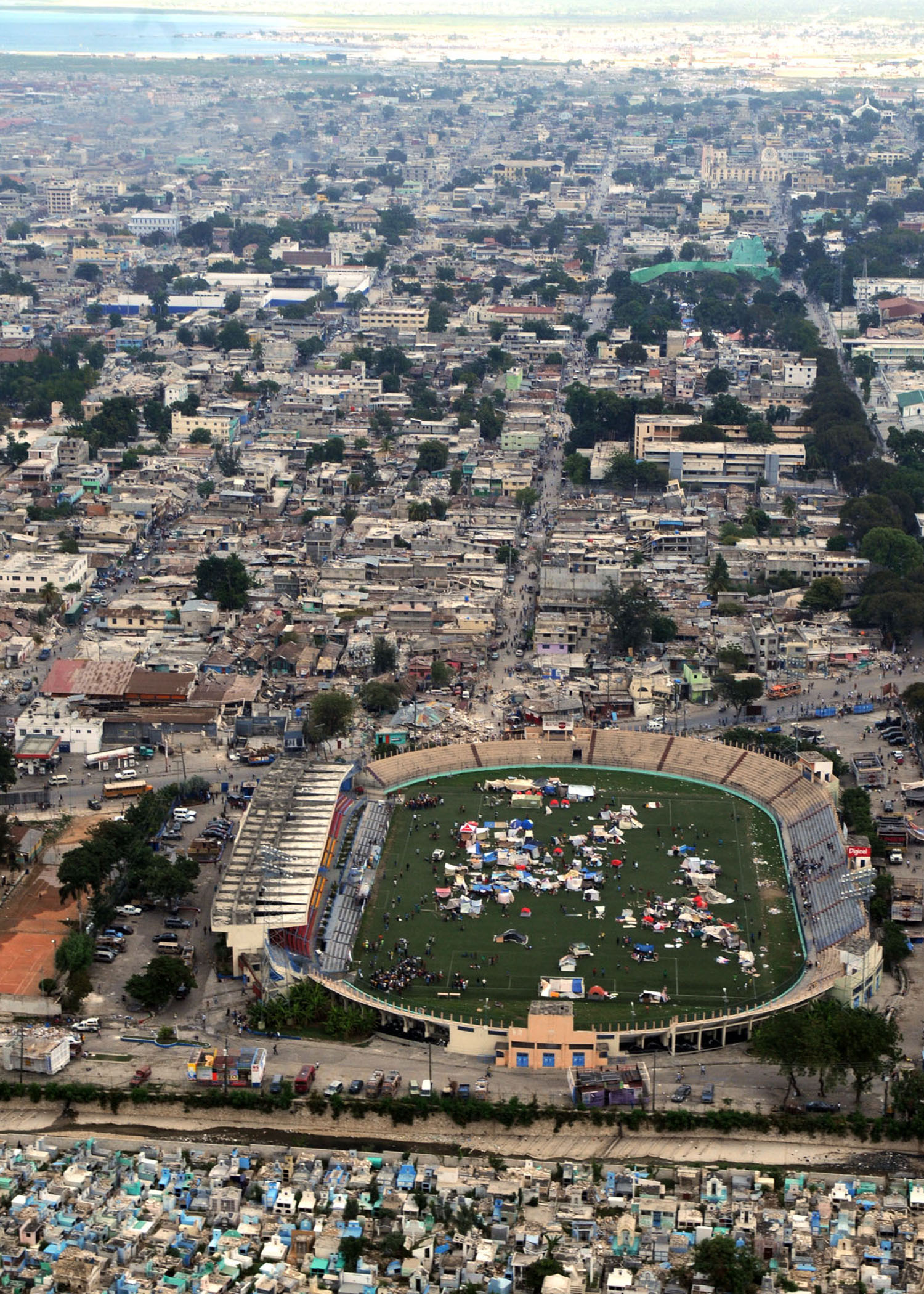 PORT-AU-PRINCE, Haiti (Jan. 17, 2010) Haitian citizens seek refuge at the Stade Sylvio Cator, the national soccer stadium, in Port-au-Prince, Haiti. USS Carl Vinson and Carrier Air Wing 17 are conducting humanitarian and disaster relief operations as part of Operation Unified Response after a 7.0 magnitude earthquake on Jan. 12, 2010. (U.S. Navy photo by Mass Communication Specialist 2nd Class Joel Carlson/Released)